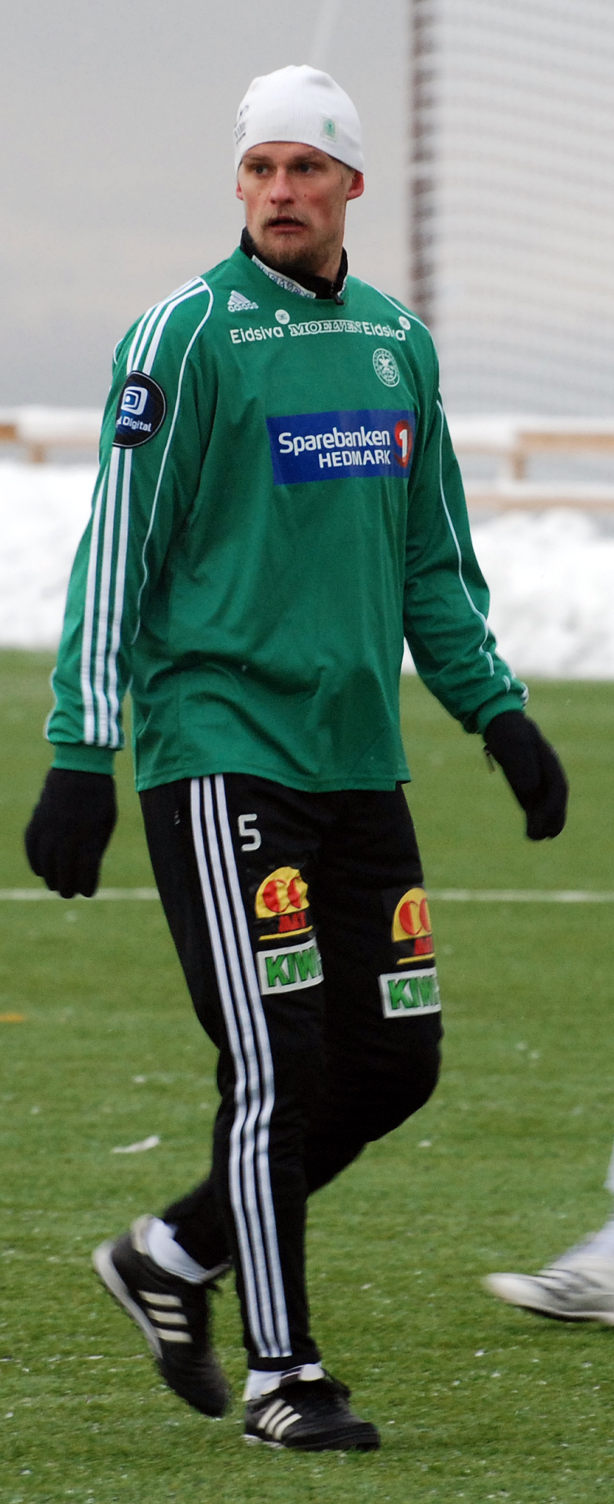 Juha Pasoja, HamKam - Notodden, HIAS-banen in Stange, Hedmark, Norway